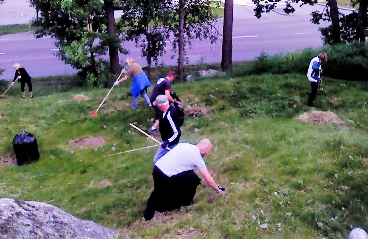 A Swedish assocation